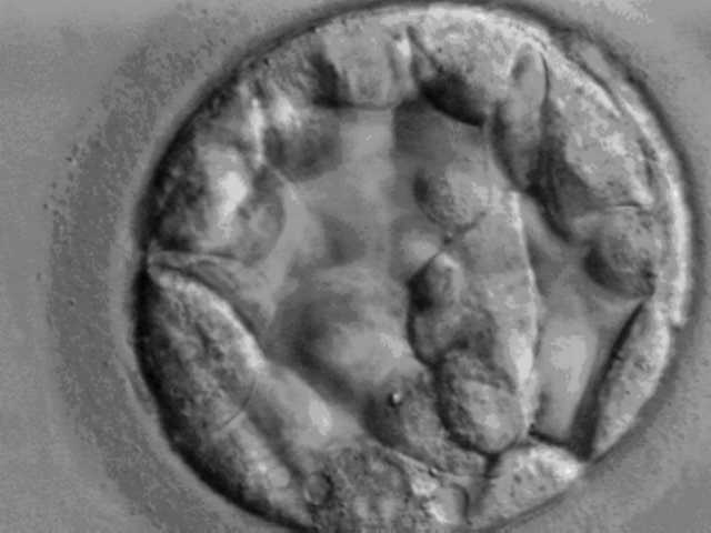 Blastocyst on day 5 after fertilization Courtesy: RWJMS IVF Program